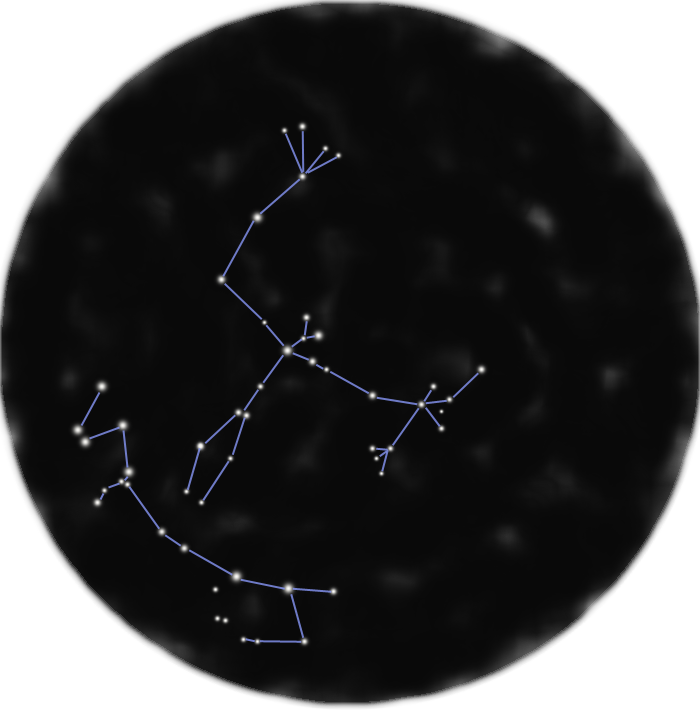 Map of the constellation Tagai, used by the Torres Strait Islanders of northern Australia and southern Papua New Guinea